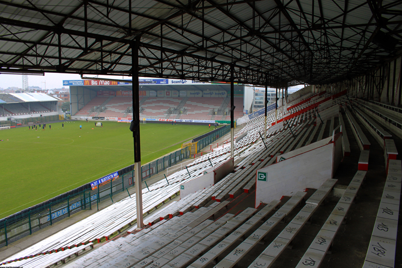 Bosuil Stadium, homeground of Royal Antwerp FC.